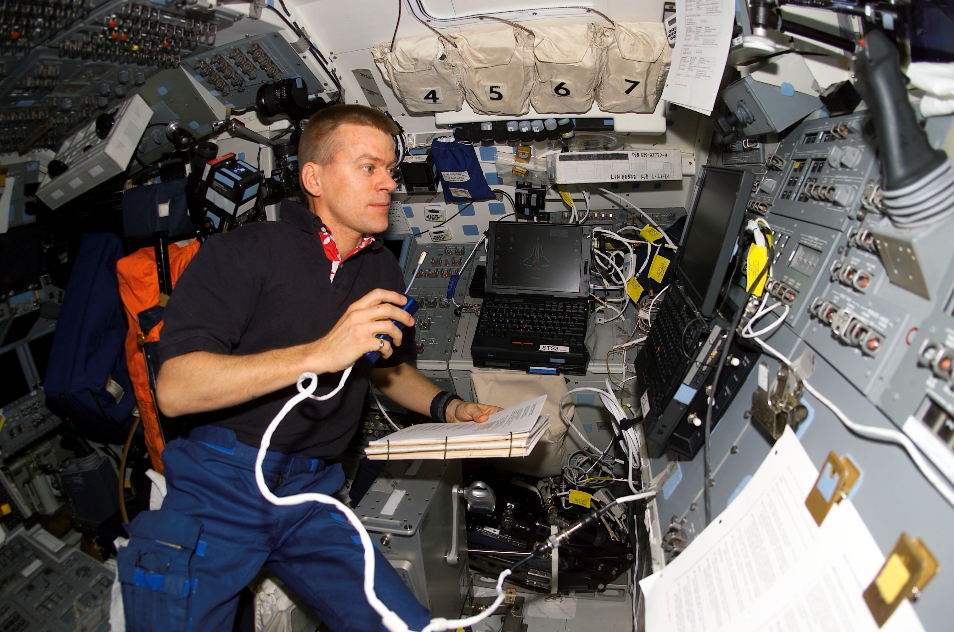 Astronaut William C. McCool, STS-107 pilot, talks to ground controllers from the aft flight deck of the Earth-orbiting Space Shuttle Columbia.